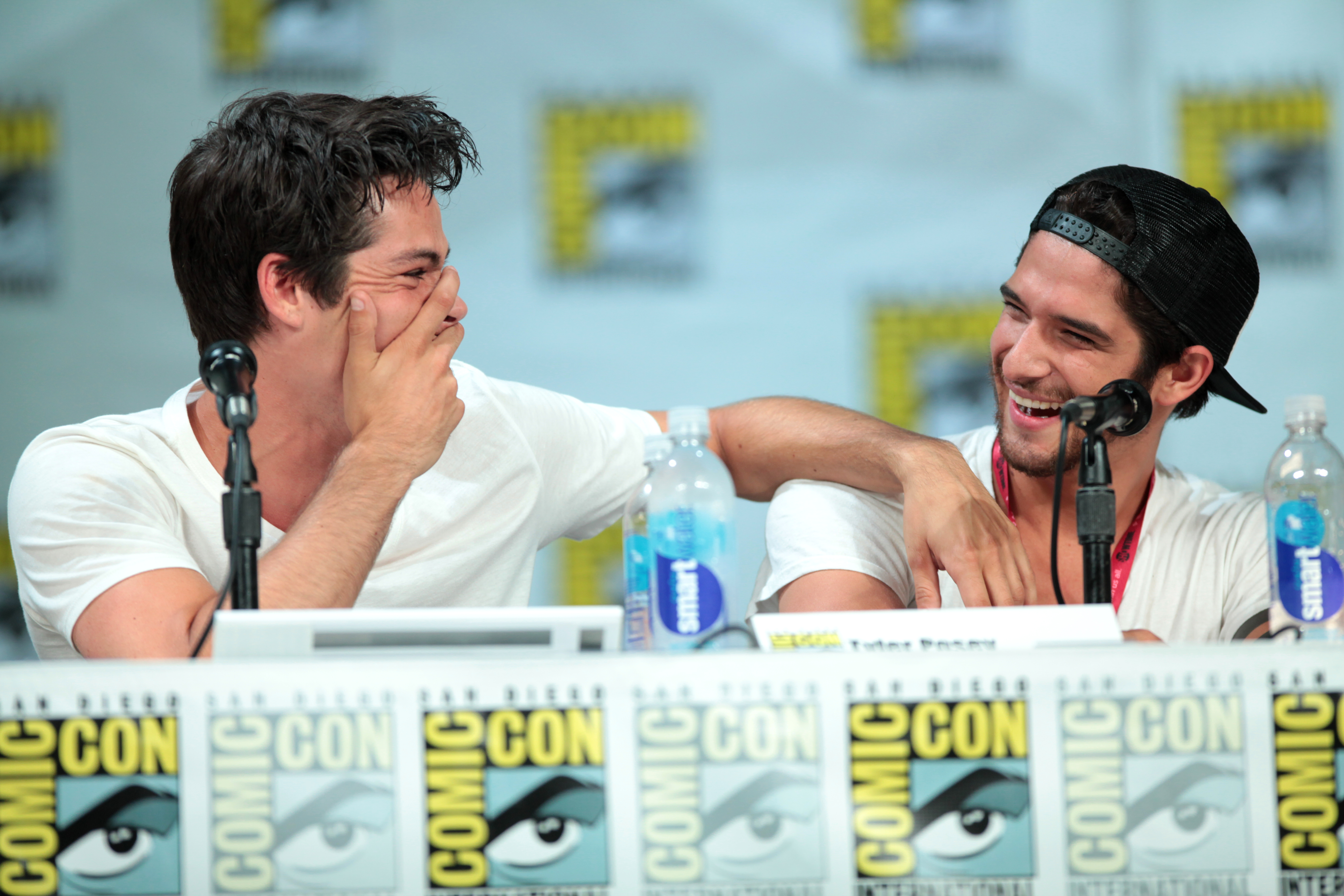 Dylan O'Brien and Tyler Posey speaking at the 2014 San Diego Comic Con International, for "Teen Wolf", at the San Diego Convention Center in San Diego, California.